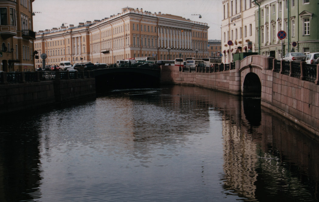 General staff building, in St. Petersburg, Russia, with Pevchesky Bridge across the Moika river and the Second Winter Bridge over the Winter canal in the foreground. Image taken by Cormaggio, April, 2006.